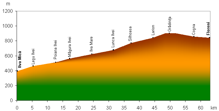 elevation profile of the railway track Ilva Mica-Floreni